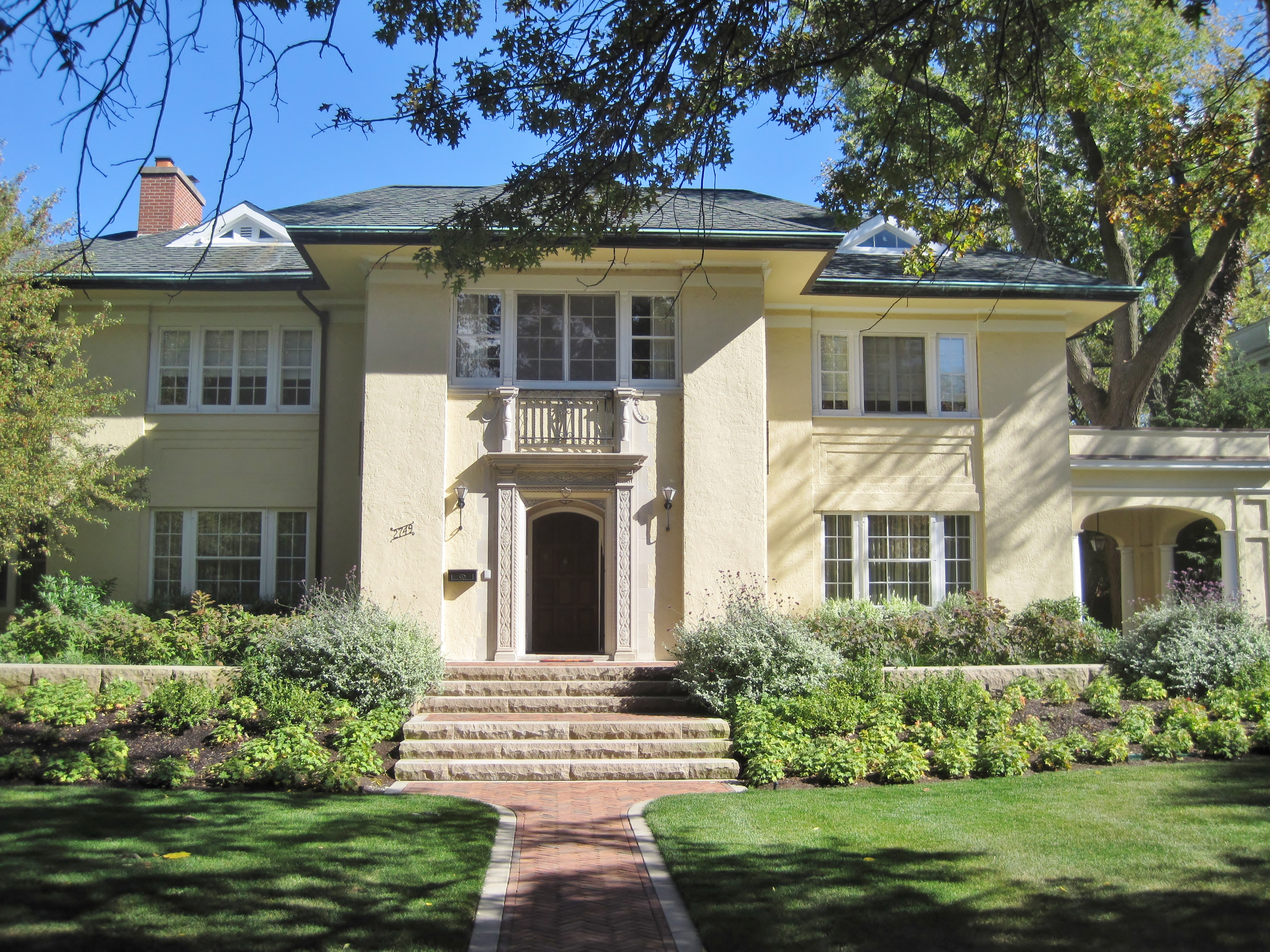 The Wilbur D. Nesbit House in the Evanston Northeast Historic District (1913). It was designed by Tallmadge & Watson and is a local landmark. Nesbit was a poet who wrote his works with a Masonic theme. The house was moved next to the Grosse Point Lighthouse in 1923, then moved here in 1926 to accommodate the construction of the Harley Clarke Mansion.